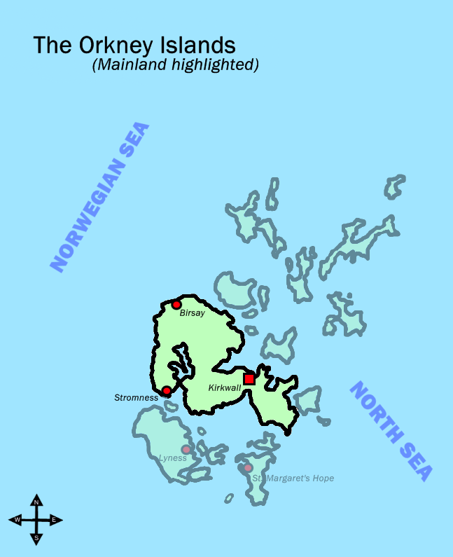 A map of the Orkney Islands with the Mainland highlighted.